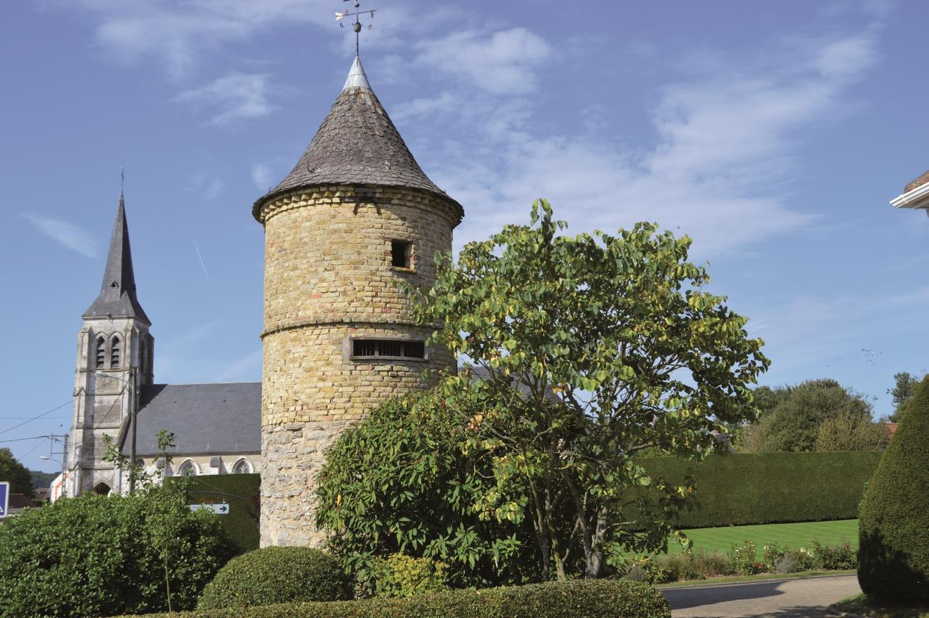 The dovecote